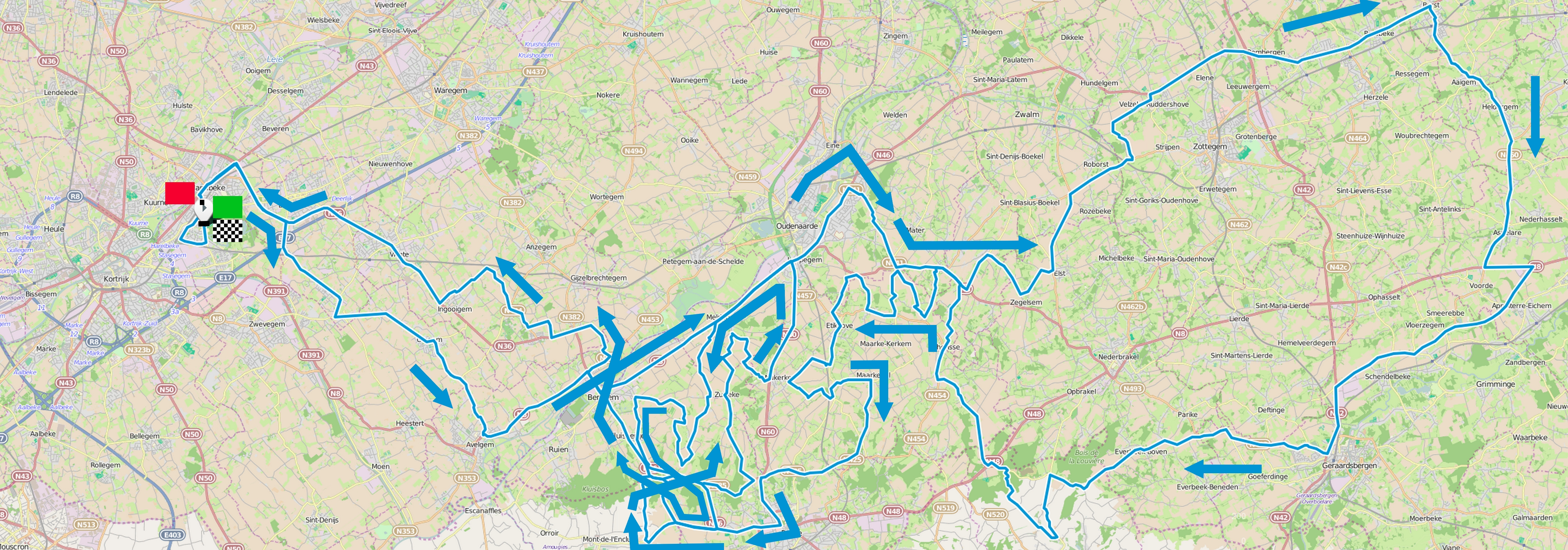 Parcours du Grand Prix E3 2015. This map may be incomplete, and may contain errors. Don't rely solely on it for navigation.